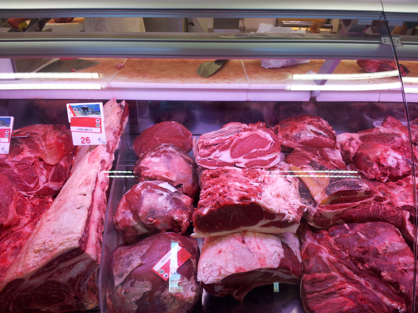 Black Iberian meat avileña, Protected geographical indication (PGI), in Ambles Valley, Roal, La Torre, Ávila, Spain